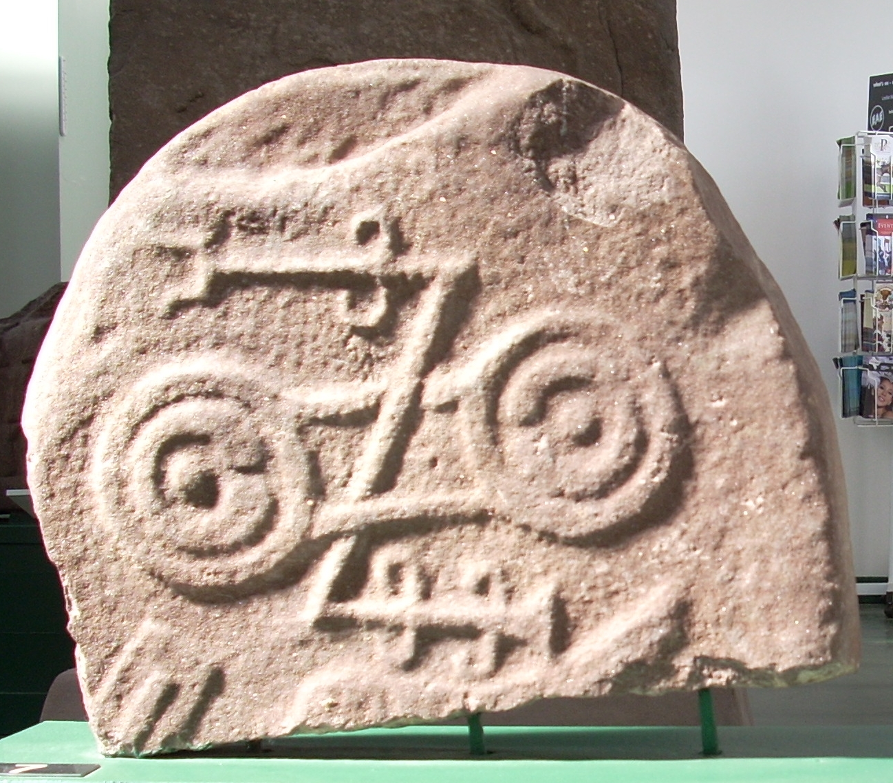 The back of Meigle 7 Pictish stone in the Meigle Sculpted Stone Museum.